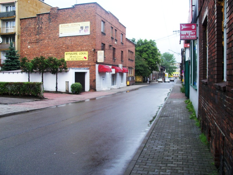 Gnieźnieńska Street in Katowice